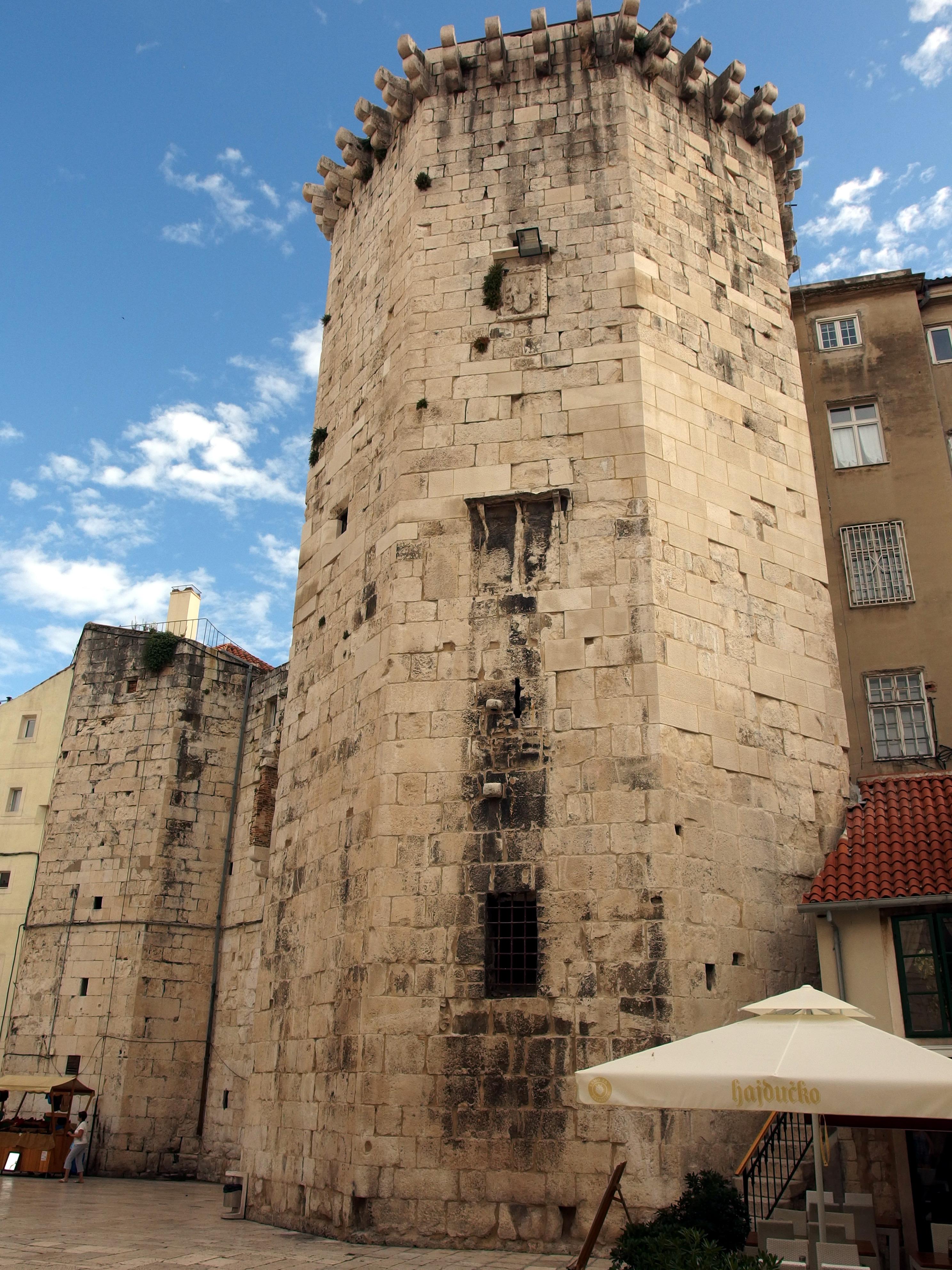 2013-06-05 in Split.